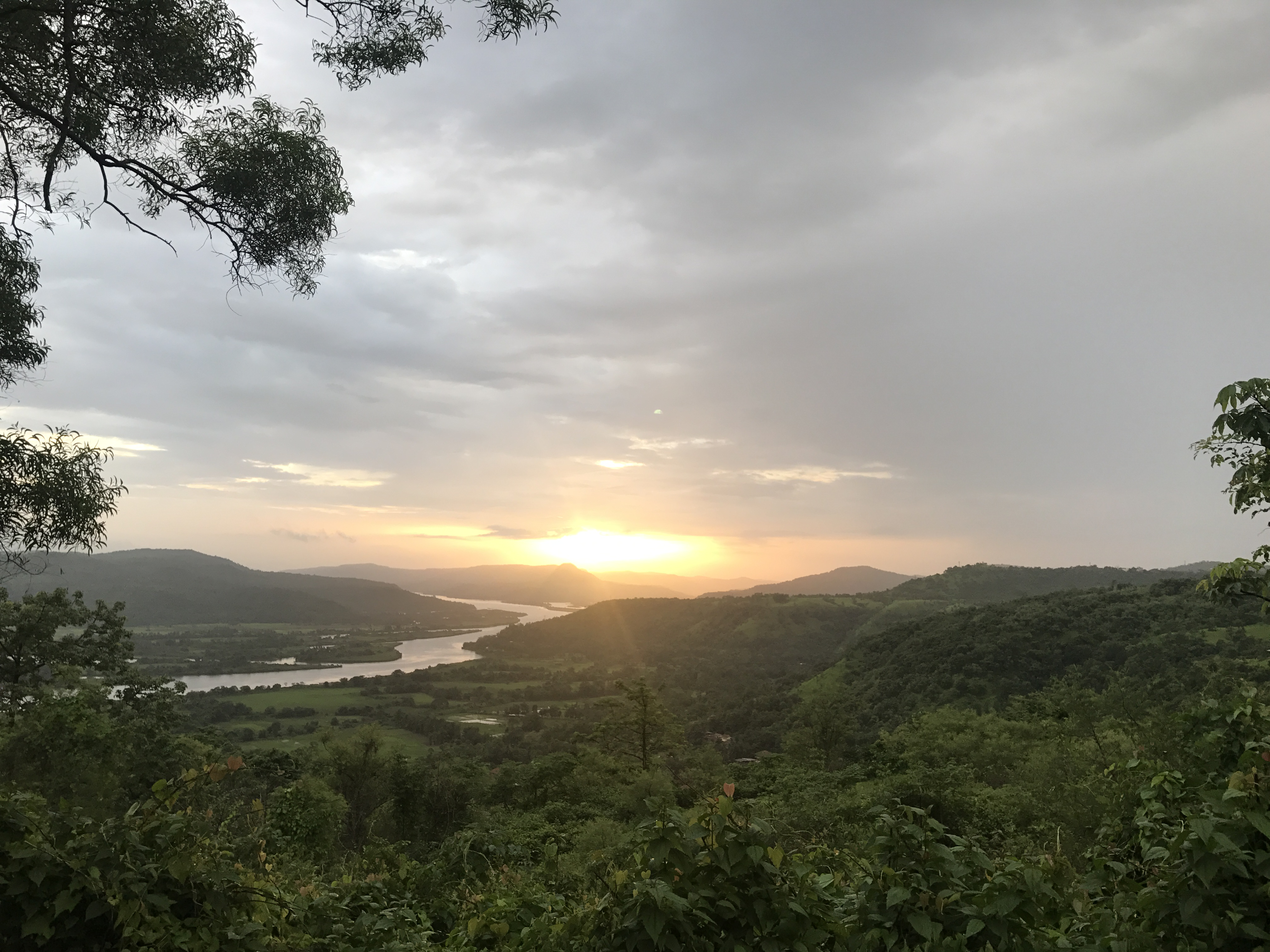 It's the image of Vashishti river In the Konkan coast of Chiplun Maharashtra